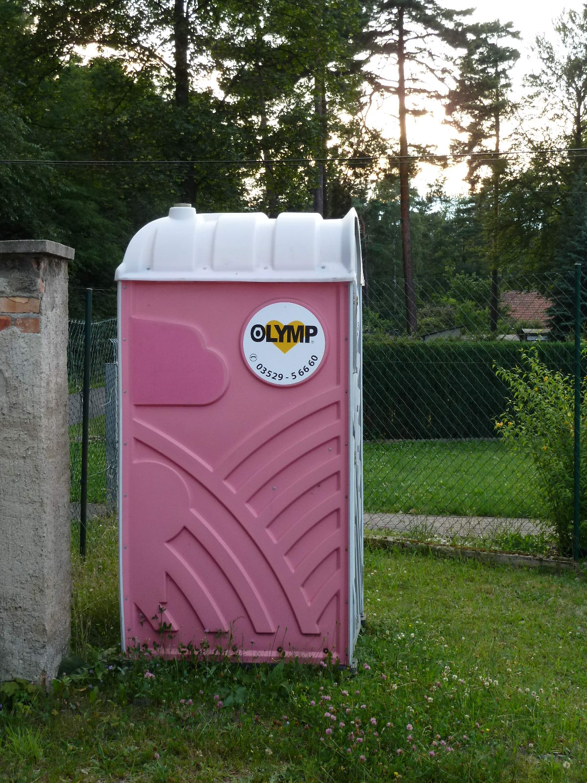 Portable toilet Olymp of the TOI TOI & DIXI Sanitärsysteme company at the playing field of the school of Schleife, Saxony